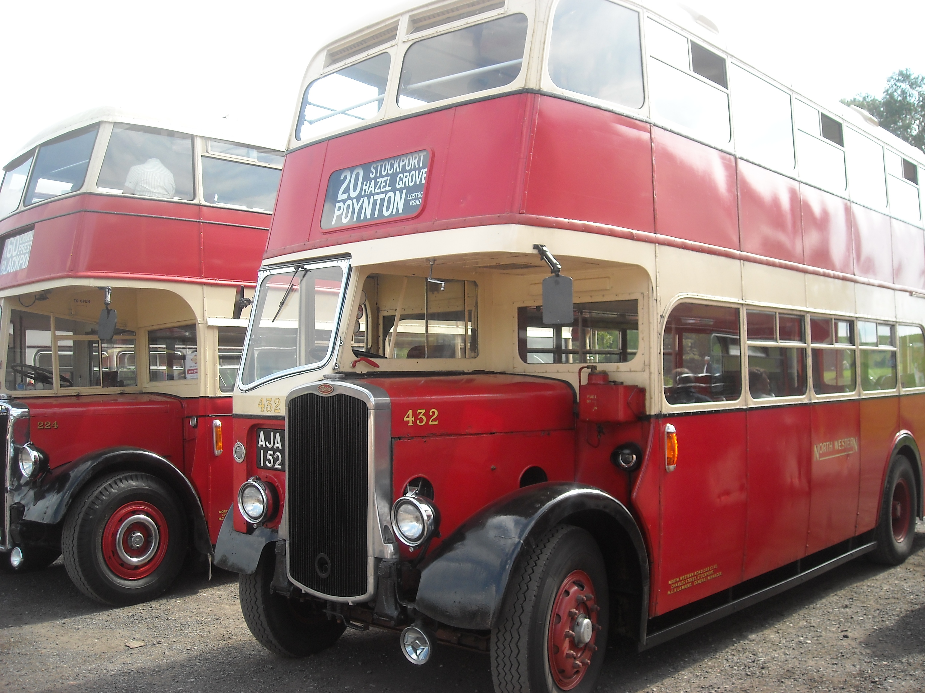 In the form of a 1939 Bristol K5G, bodied by Willowbrook and bearing a traditional Stockport registration plate, preserved in the North Western livery and seen at Heaton Park